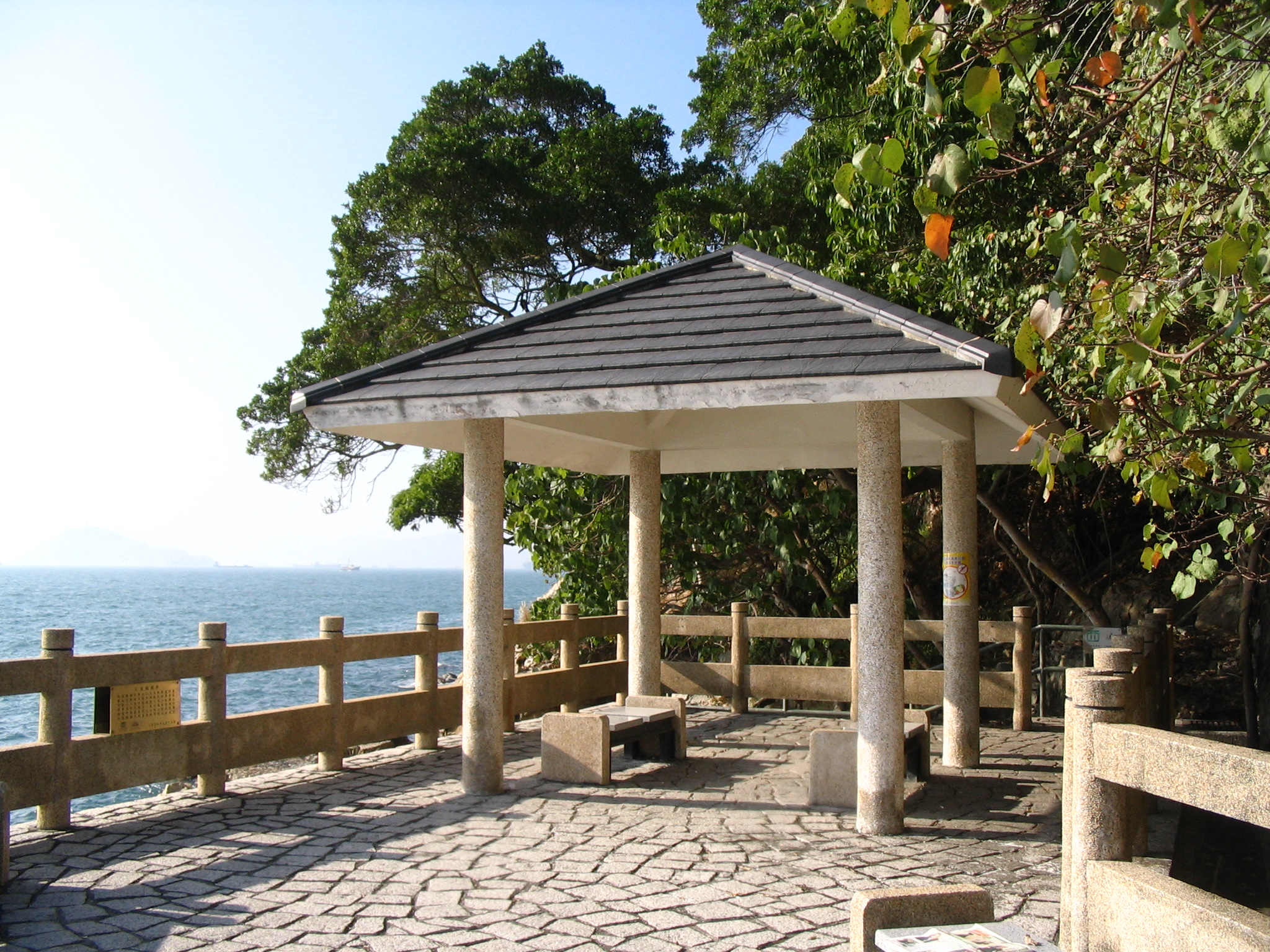 Photo of the "Pavilion for Watching the Sunset and Billows"